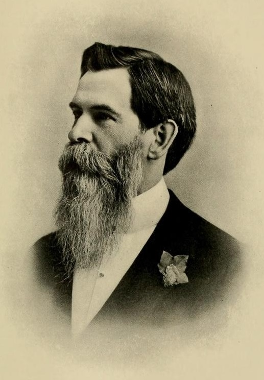 Grove L. Johnson, Congressman from California